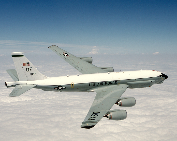 A U.S. Air Force Boeing RC-135U Combat Sent aircraft (s/n 64-14847) flies a training mission from Offutt Air Force Base, Nebraska (USA) on 18 June 2004. There are only two Combat Sent aircraft in the USAF inventory and both are assigned to the 55th Wing at Offutt AFB.